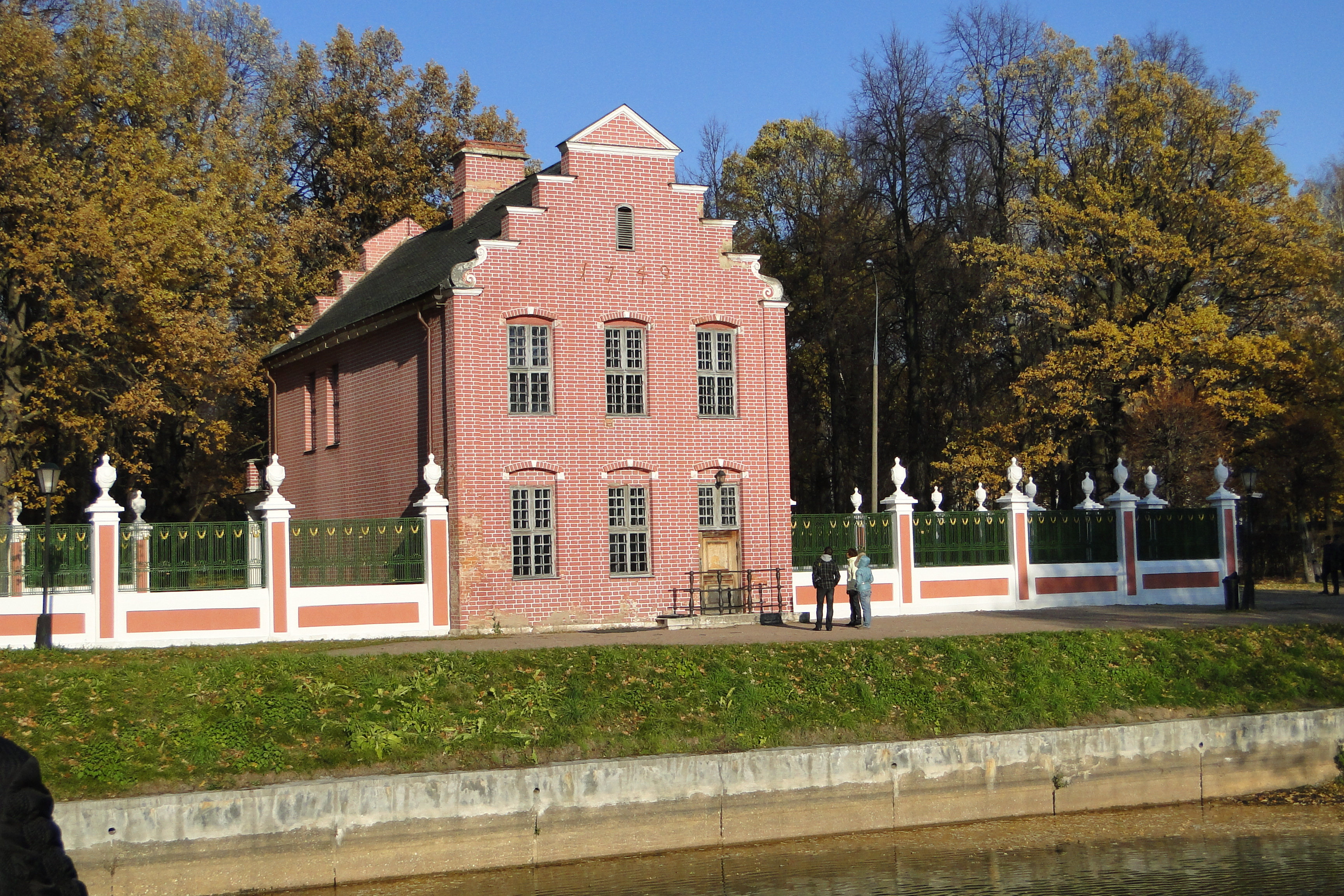 holland house